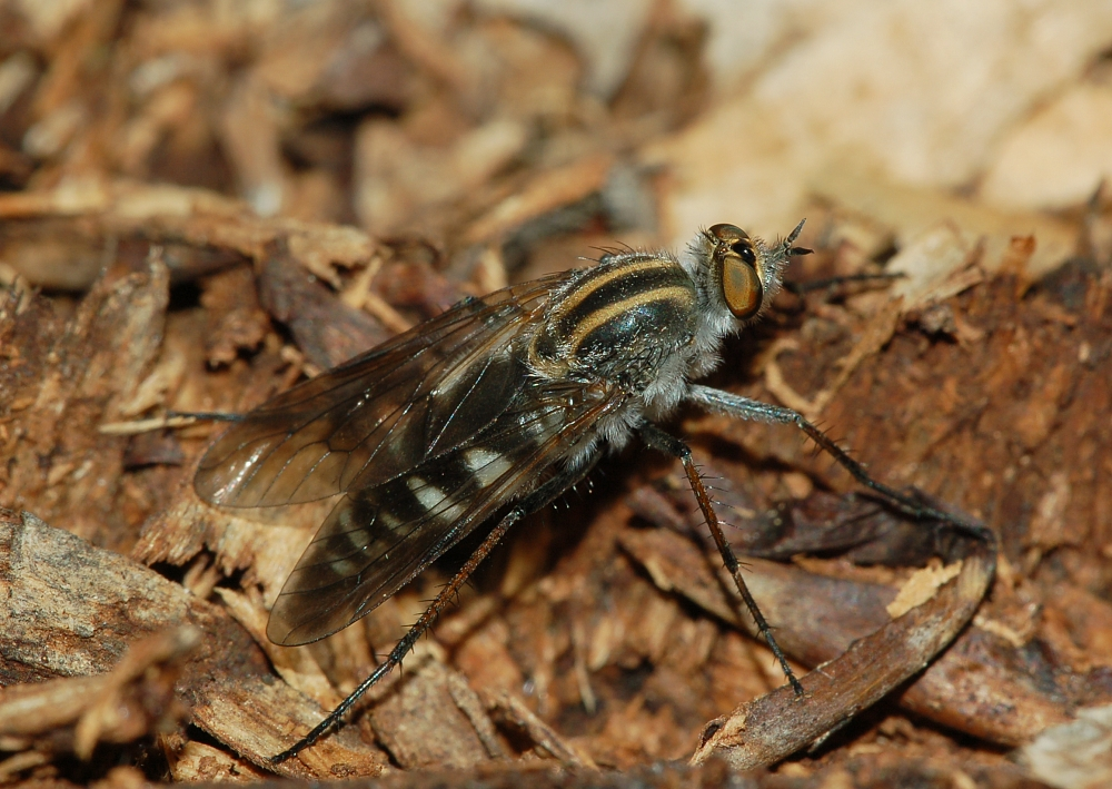 Thereva sp., female, (Diptera,Therevidae), Königstein, Taunus, Germany